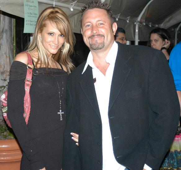 Jessica Drake and Brad Armstrong at the XRCO Awards on April 20, 2006